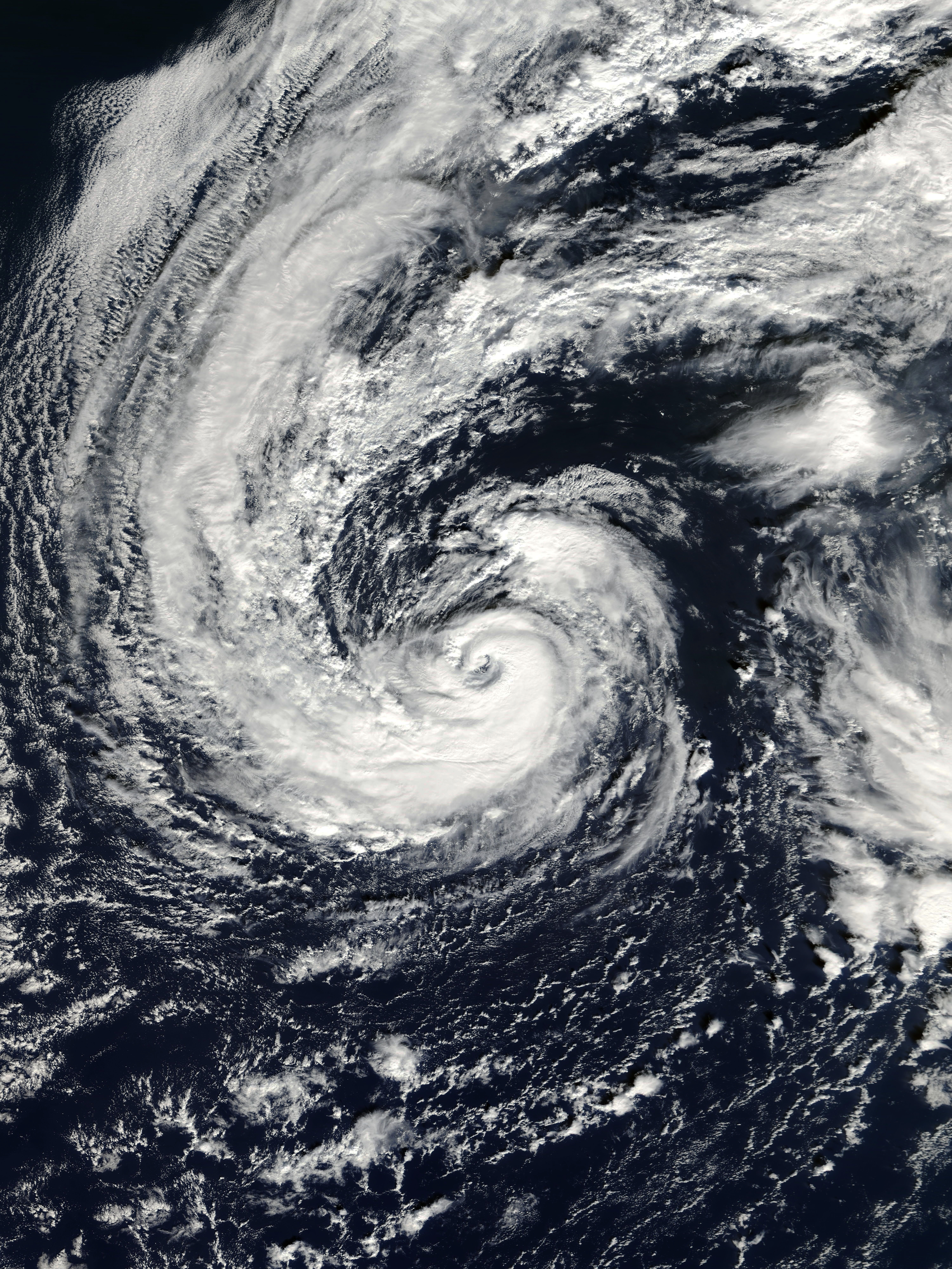 Hurricane Olga at peak intensity on November 27, 2001